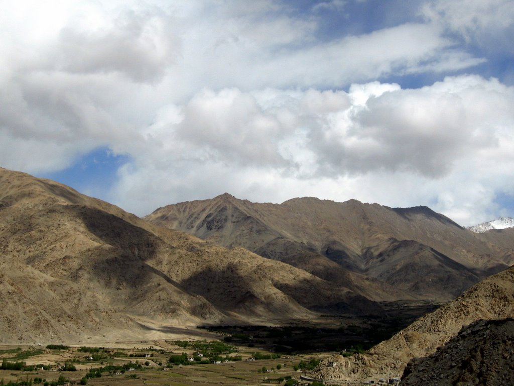 Photograph of a landscape in Ladakh